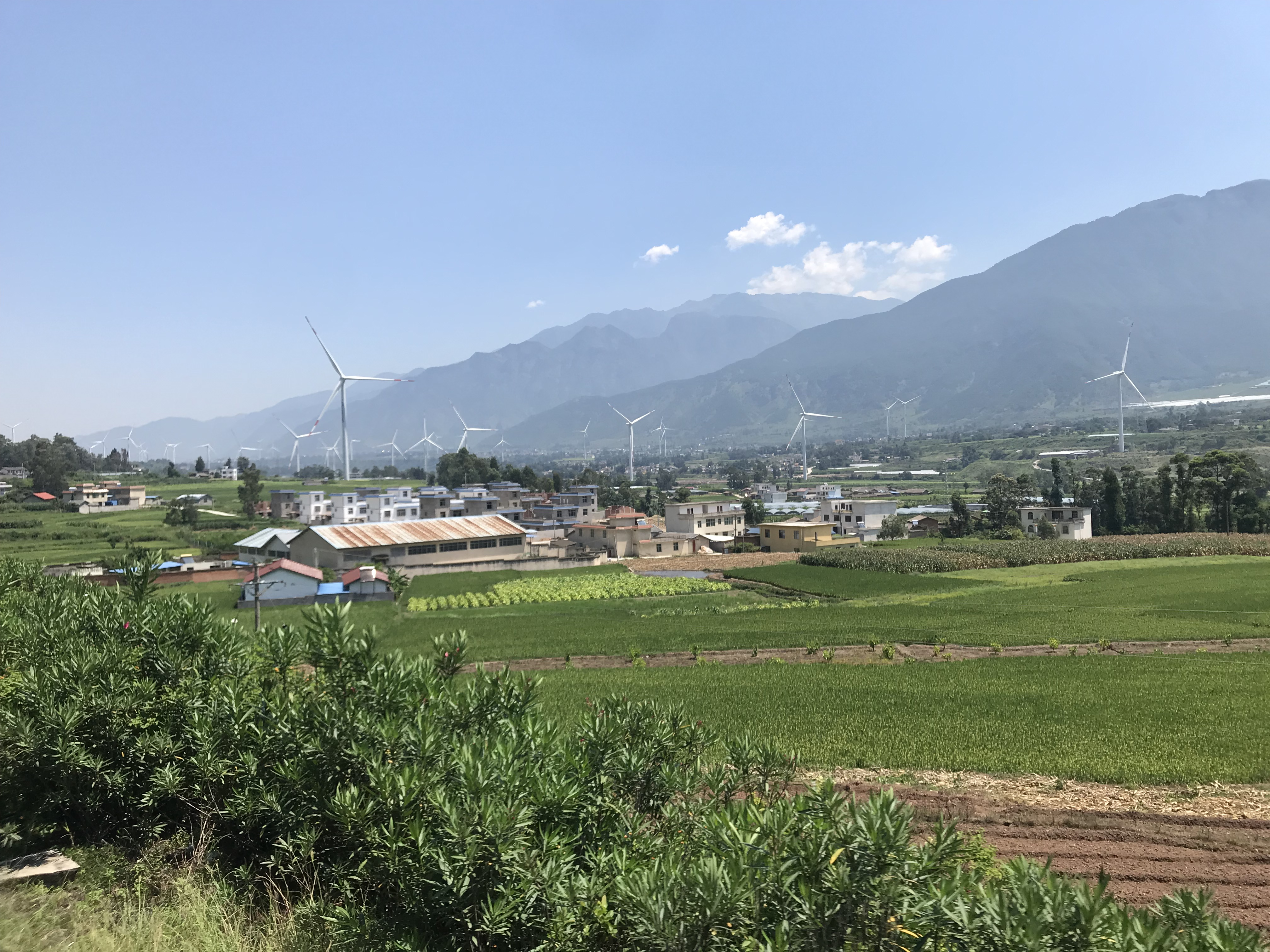 201908 Huangjiaba Village and Dechang Wind Farm